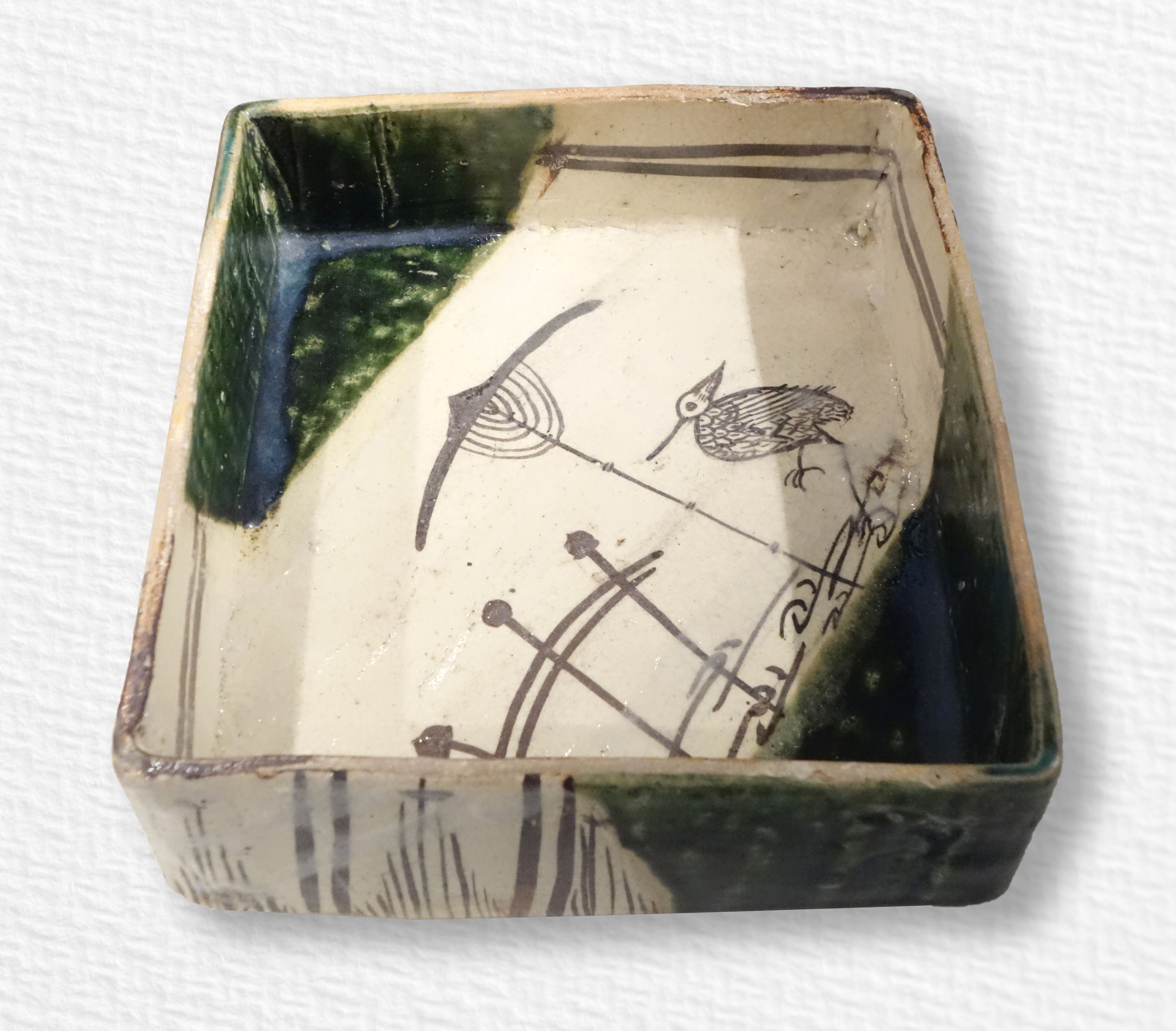 Exhibit in the Asian Art Museum of San Francisco, San Francisco, California, USA. This artwork is in the public domain because the artist died more than 70 years ago.